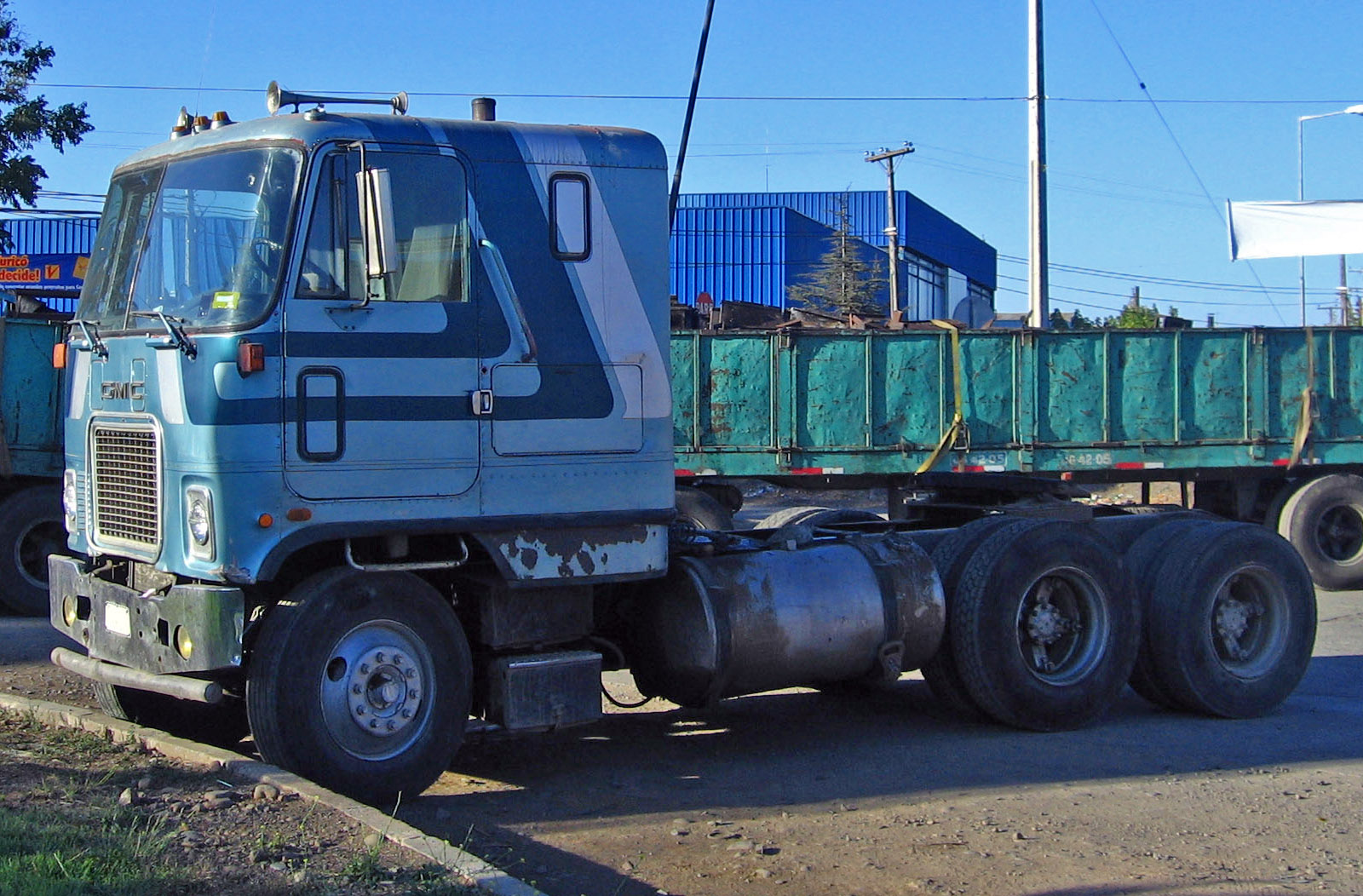 1985 GMC Astro 95 tractor in Chile